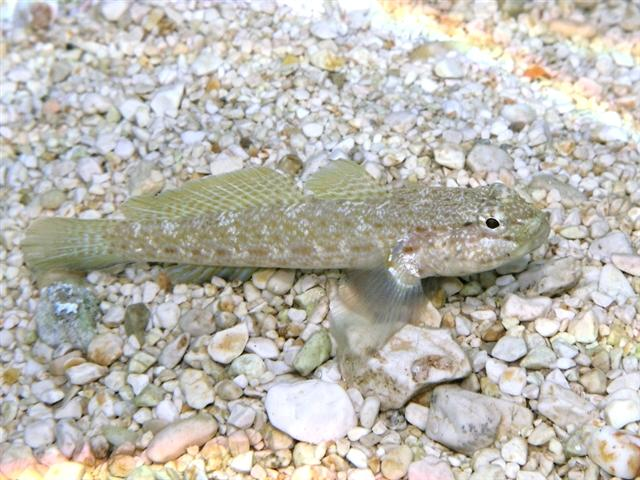 Gobius bucchichi photographed near Rab (Croatia).